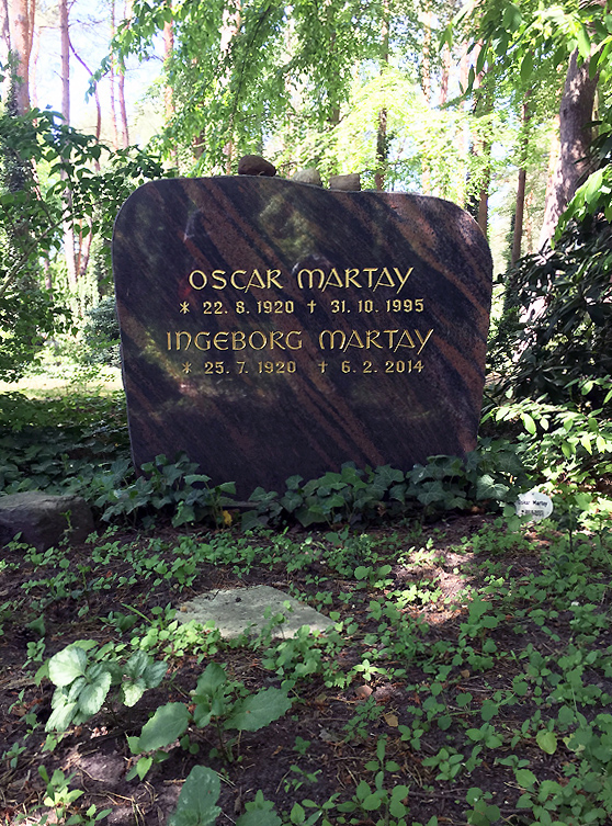 Grave of Oscar and Ingeborg Martay in Waldfriedhof Zehlendorf (Zehlendorf forest cemetery), Wasgensteig 30, Berlin-Zehlendorf, Germany.